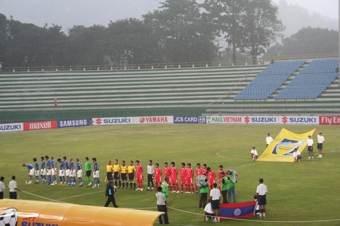 AFF Suzuki Cup 2009, Laos National Team